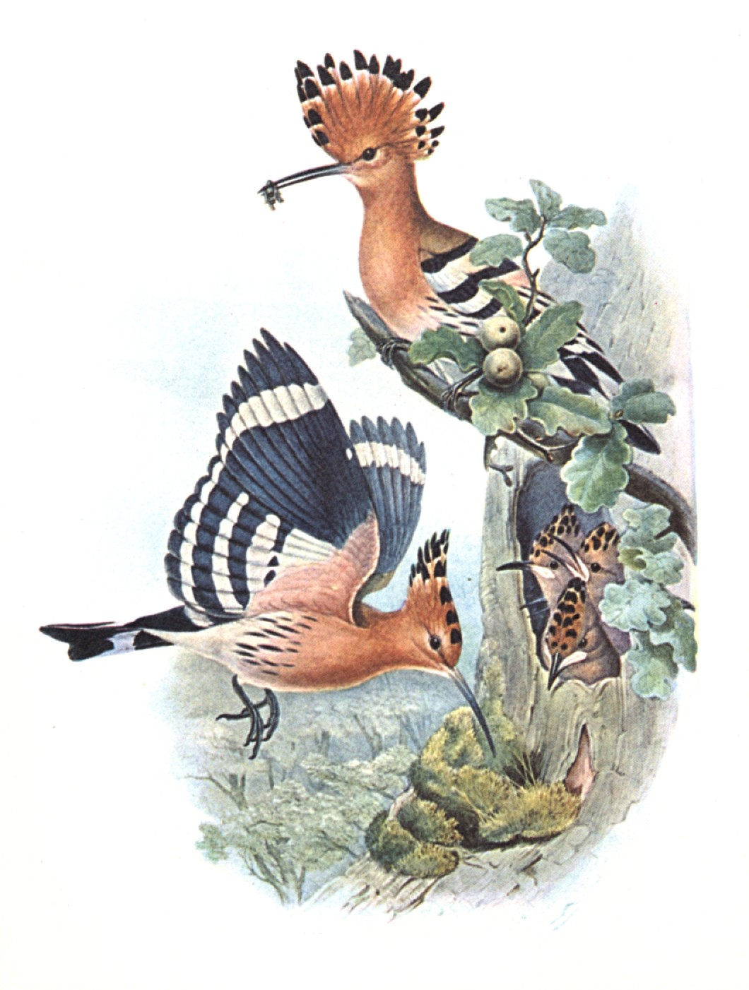 Family of hoopoes (John Gould, 1837)